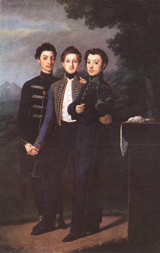 Three Brothers